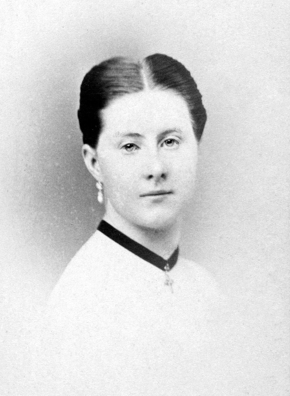 Photograph of Princess Pauline of Saxe-Weimar